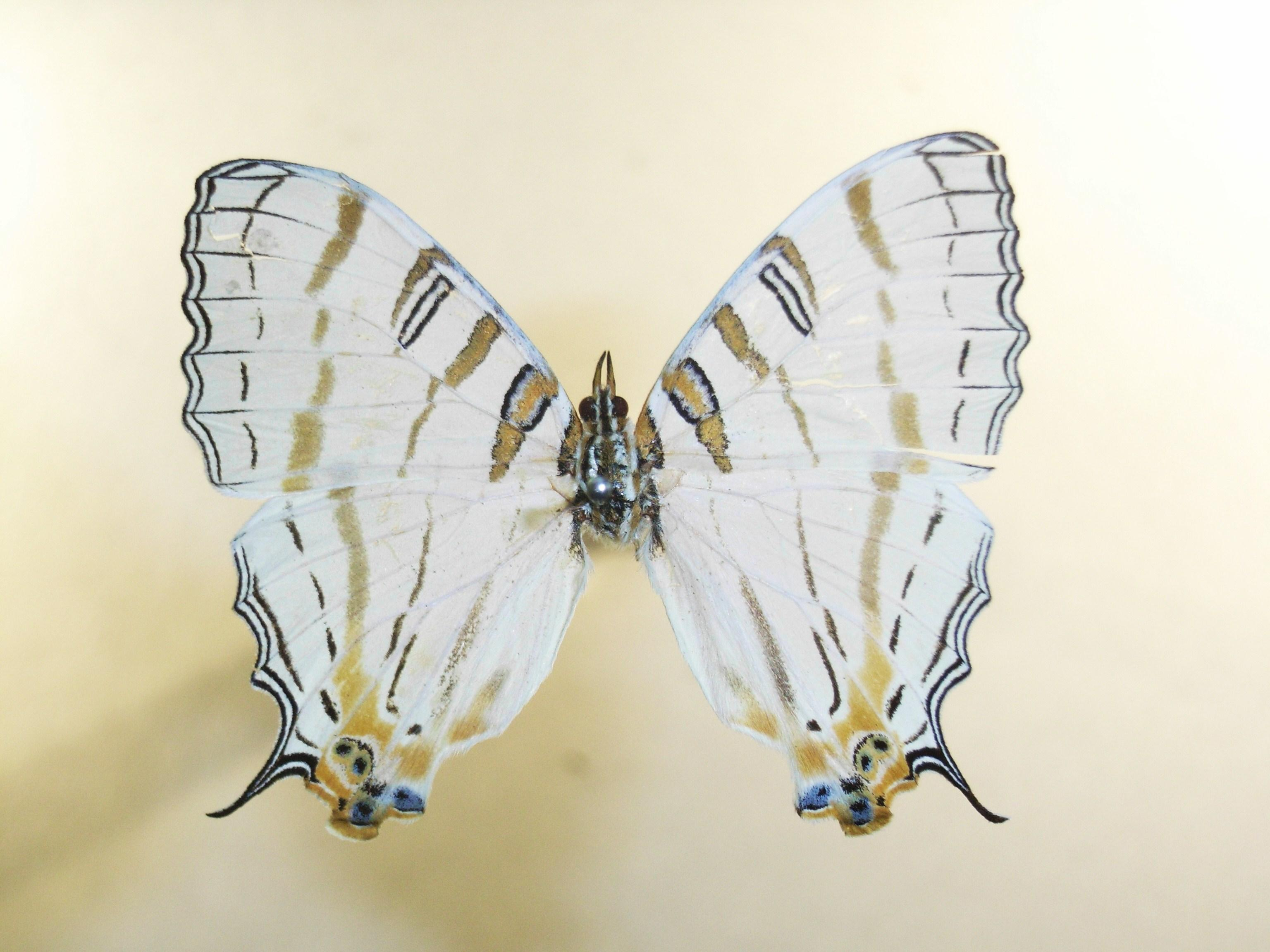 Cyrestis elegans:Cyrestinae:Nymphalidae Madagascar